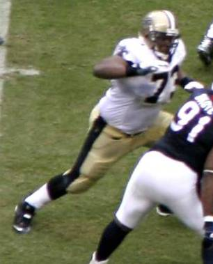 New Orleans Saints quarterback Drew Brees attempts a pass in a game against the Houston Texans.